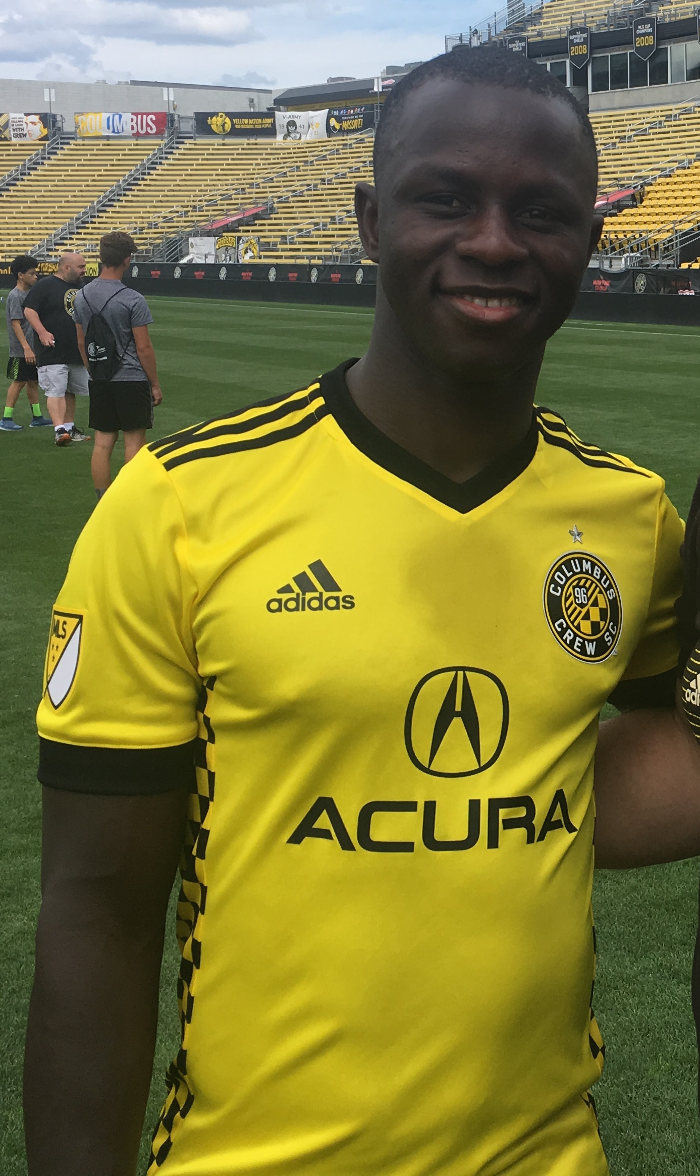 Picture of Kekuta Manneh at a Columbus Crew SC Meet the Team event in 2017.